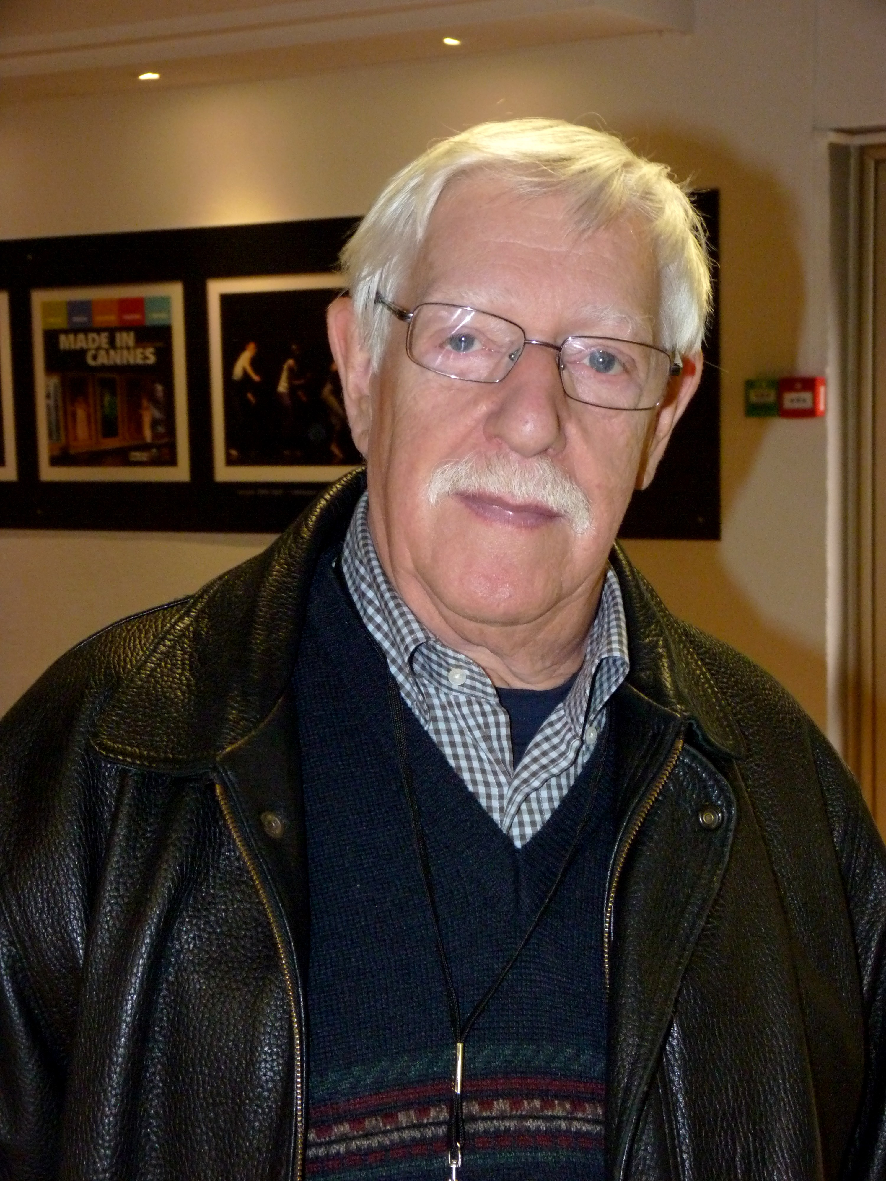 Raoul Cauvin, at the 25th Cinematic Encounters of Cannes.